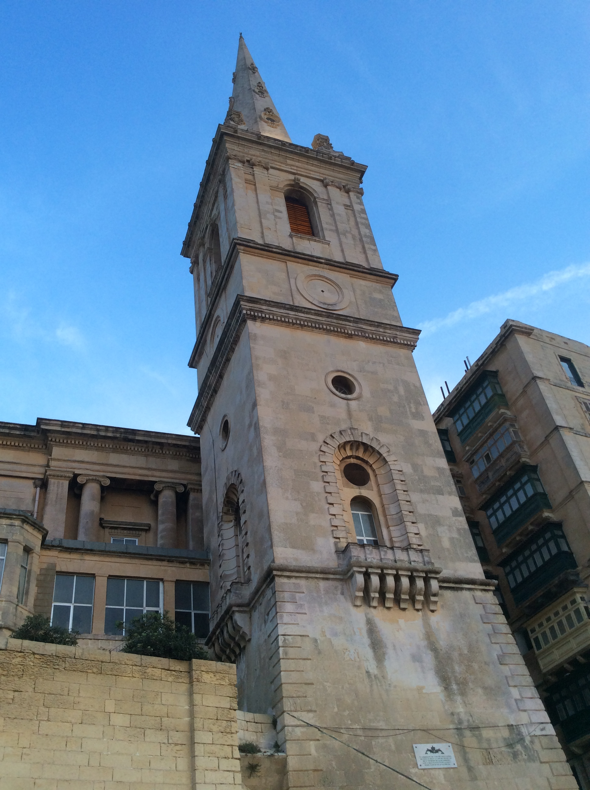 St Paul's Pro-Cathedral Tower